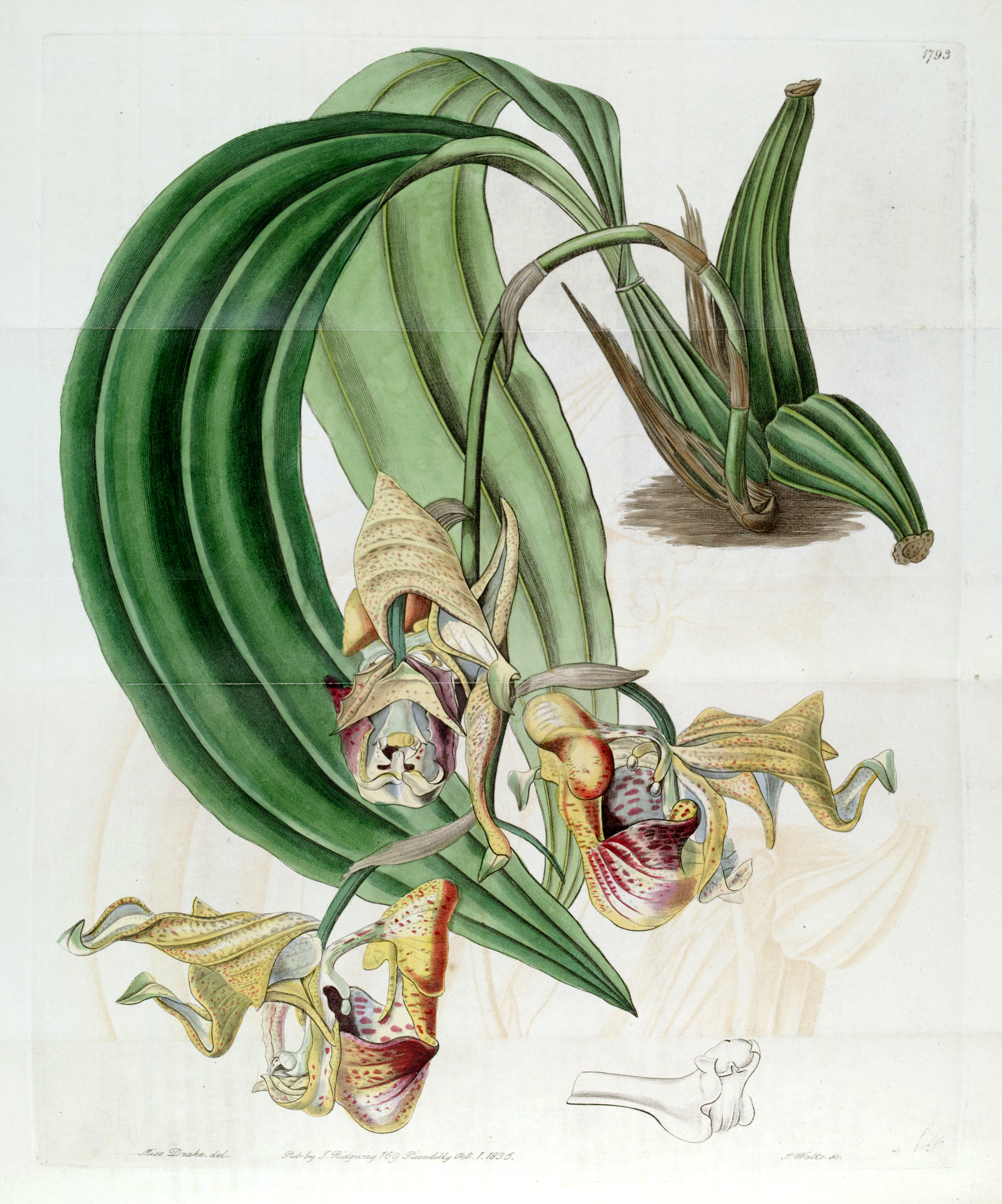 Coryanthes maculata